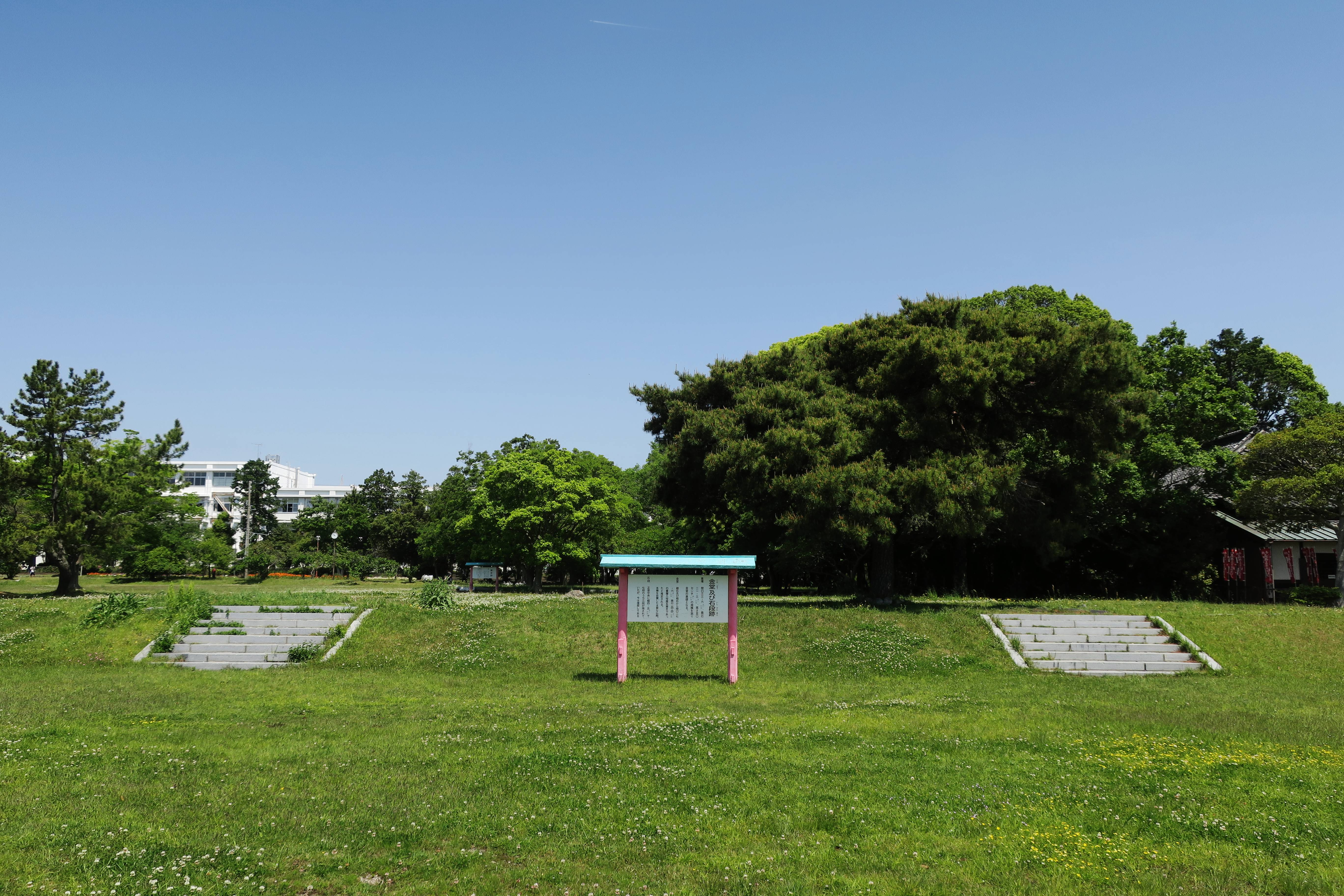 The Totomi Kokubunji Temple Ruin (Iwata, Shizuoka).